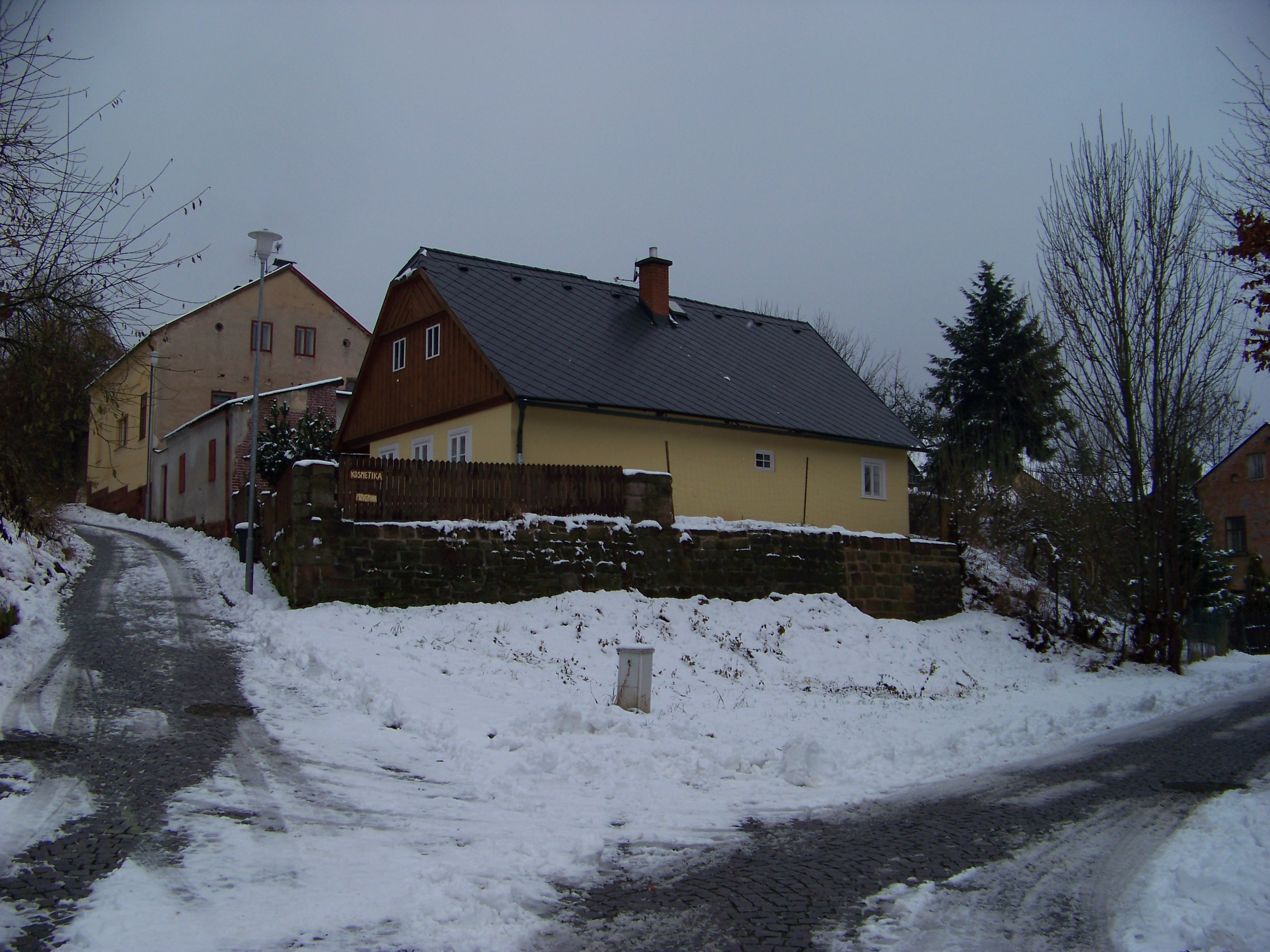 Lomnice nad Popelkou, Semily District, Liberec Region, Czech Republic. Hálkova 250, Karlovské náměstí 251. - OpenStreetMap (Info)